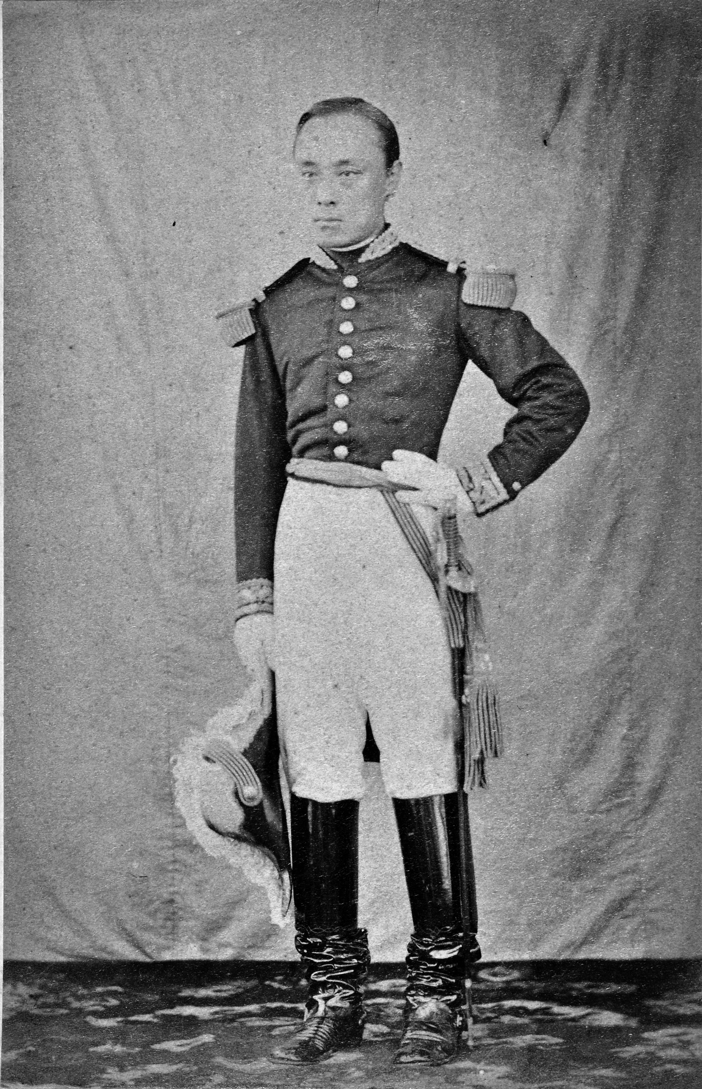 Photograph of Prince Tokugawa Yoshinobu, the 15th and last shōgun of the Tokugawa shogunate of Japan. He wears a French military uniform that was given by Napoleon III.